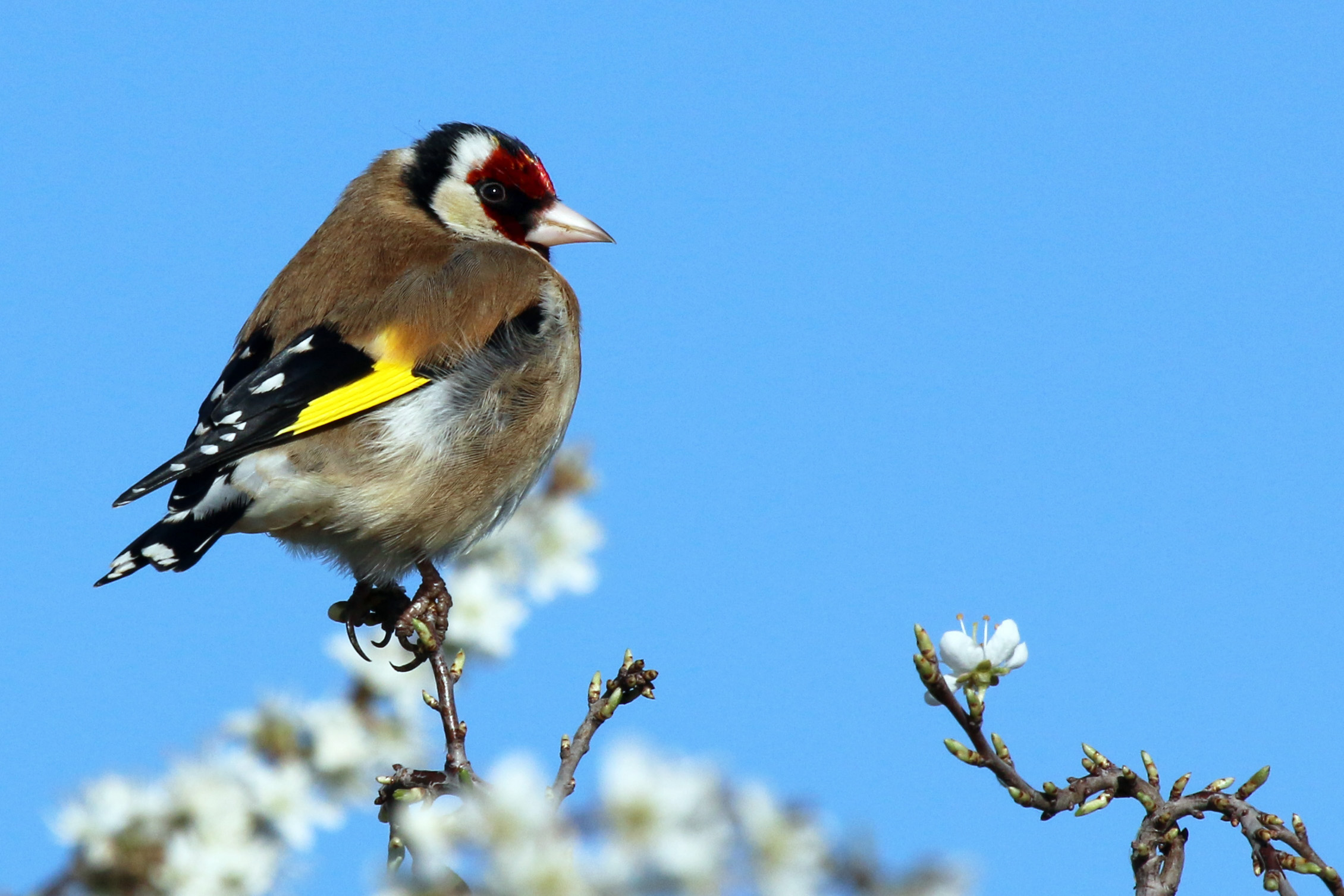 European goldfinch (Carduelis carduelis), male, Beckley, Oxfordshire